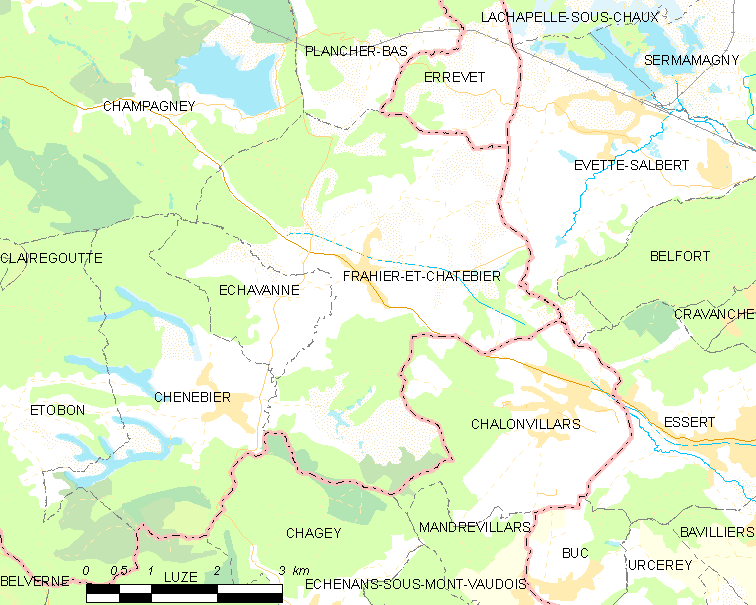 Map of French municipality